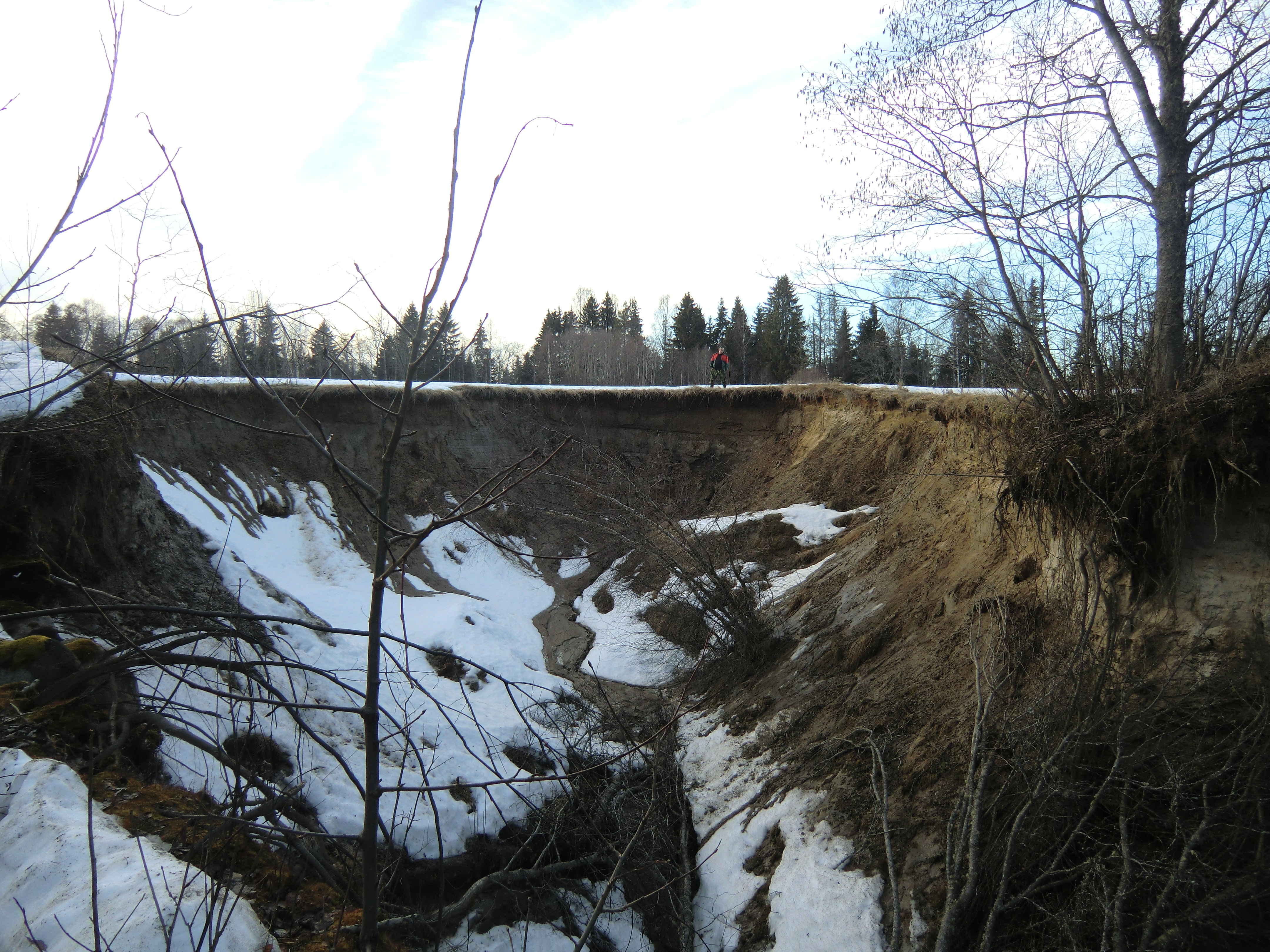 Landslide from 2008 near Granån river in Värmland, Sweden.